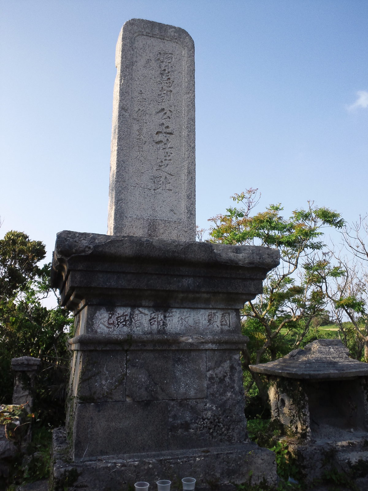 The monument of the landing point of Minamoto no Tametomo, located in Unten Port, Nakijin, Okinawa Prefecture, Japan. Signed by Tōgō Heihachirō.